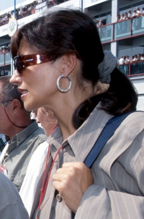 Slavica Ecclestone at at the Sportscar World Championship round at Magny-Cours in September 1991.